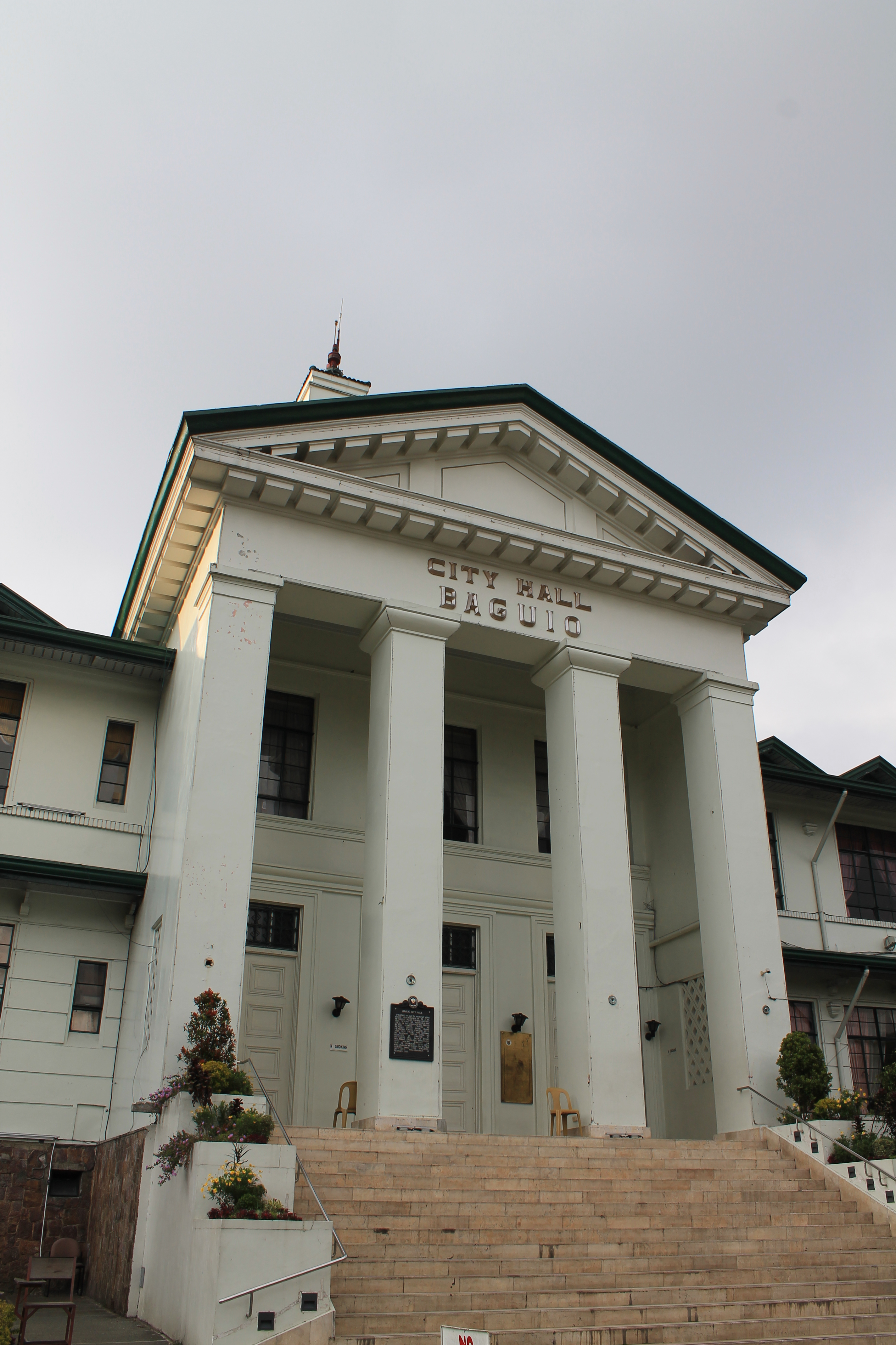 Baguio City Hall, Baguio City